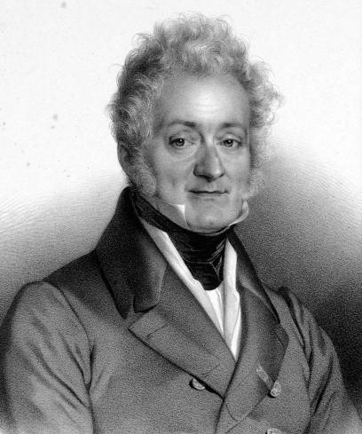 Portrait of Ferdinando Paër (1771-1839), Italian composer